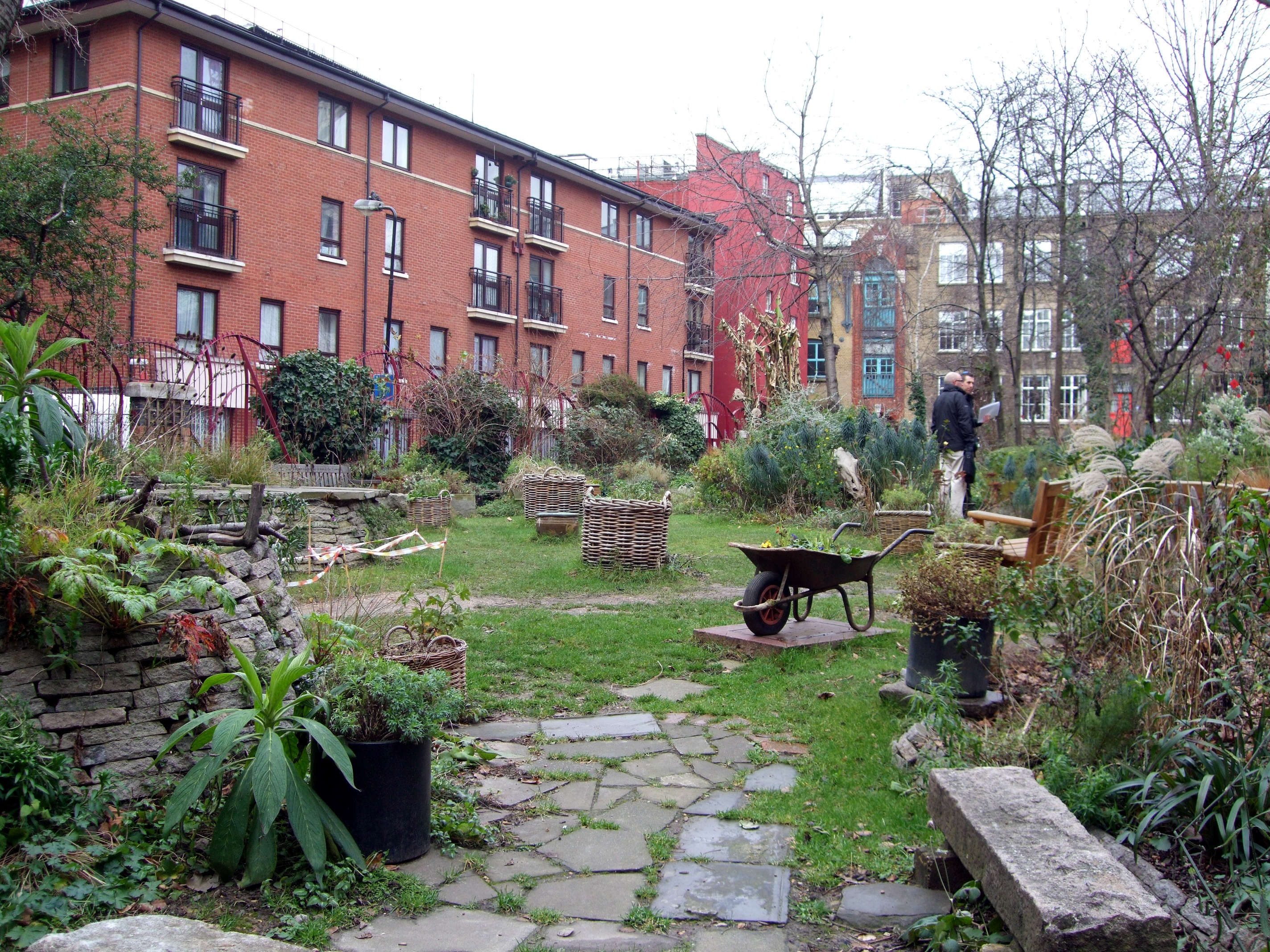 An attractive little community green space behind Charing Cross Road and Shaftesbury Avenue. Photo taken February 2009. Owner: London Borough of Camden.